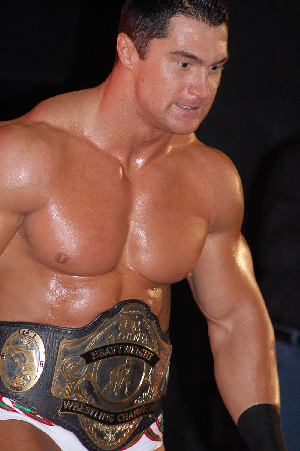 photo I took of Mason Ryan on 10/14/2010 in Tampa FL and the FCW arena